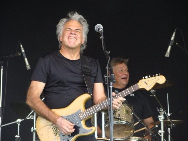 Bill Henderson (lead singer and guitarist for Chilliwack) taken in Merritt, BC, Canada